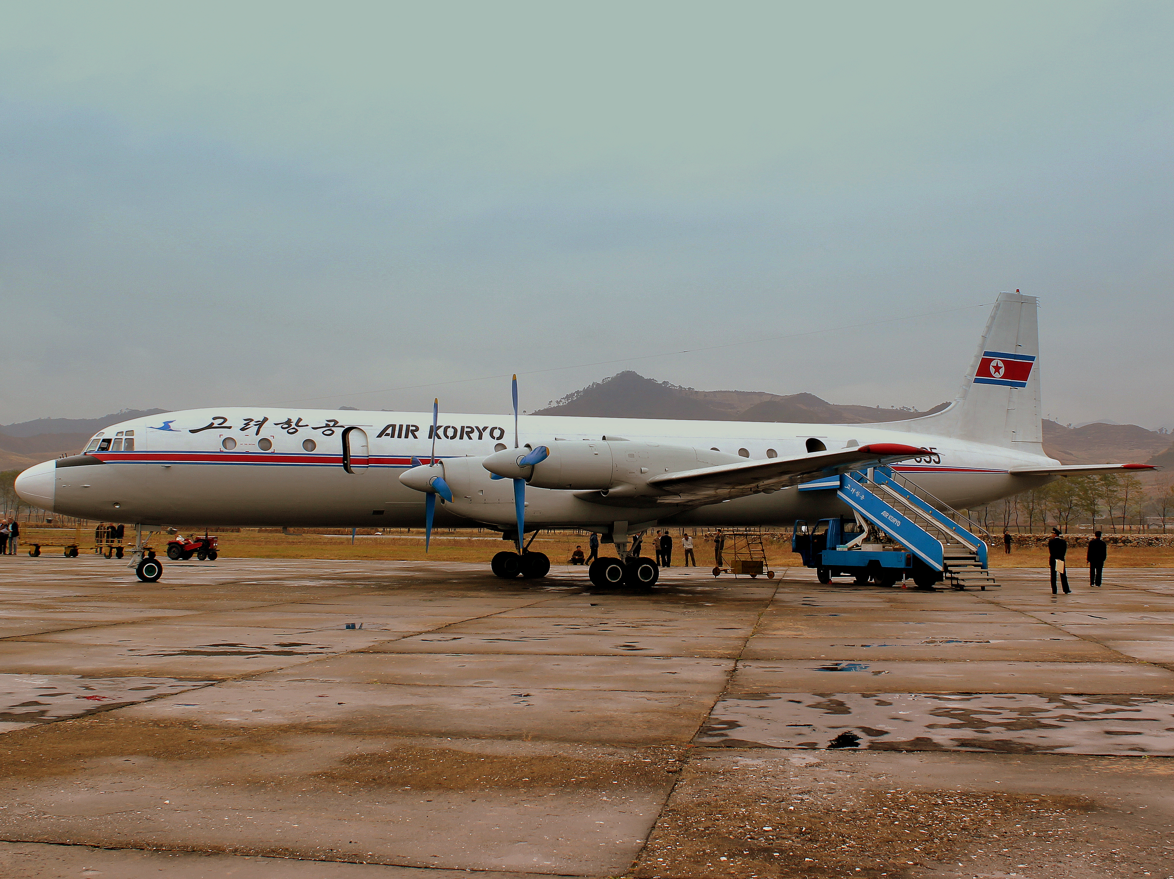 AIR KORYO FLIGHT JS5105 IL18 9835 AT ORANG MT CHILBO JUST ARRIVED FROM PYONGYANG SUNAN DPR KOREA OCT 2012